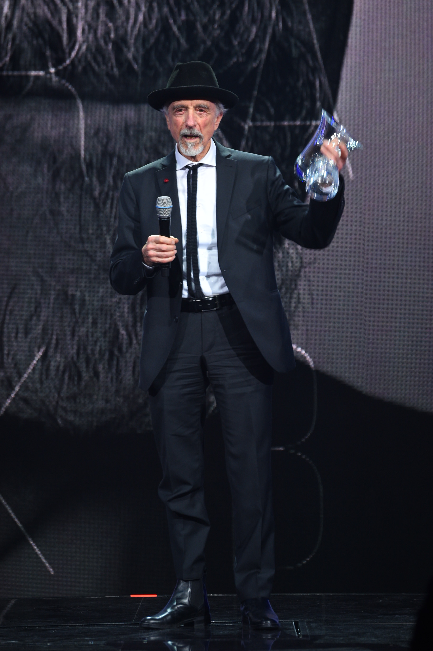 Amadeus Music Awards 2015,Volkstheater, Wien, 29.3.2015, Arik BRAUER